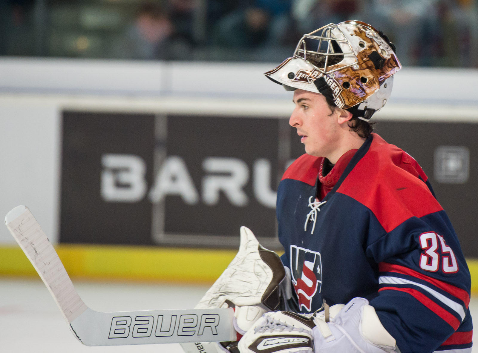 David Leggio playing for the US-Team in Nuremberg/Germany